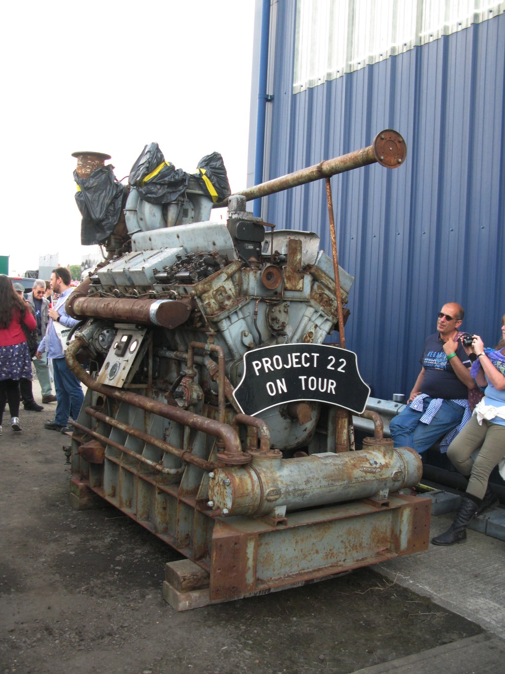 An MAN LV12V18/21 diesel engine of the type fitted to North British diesel-hydraulic locmotives built by the North British Company for British railways. It is now in the possession of the project 22 Group who hope to use it in a new locomotive they propose to build as no class 22s survive in preservation.